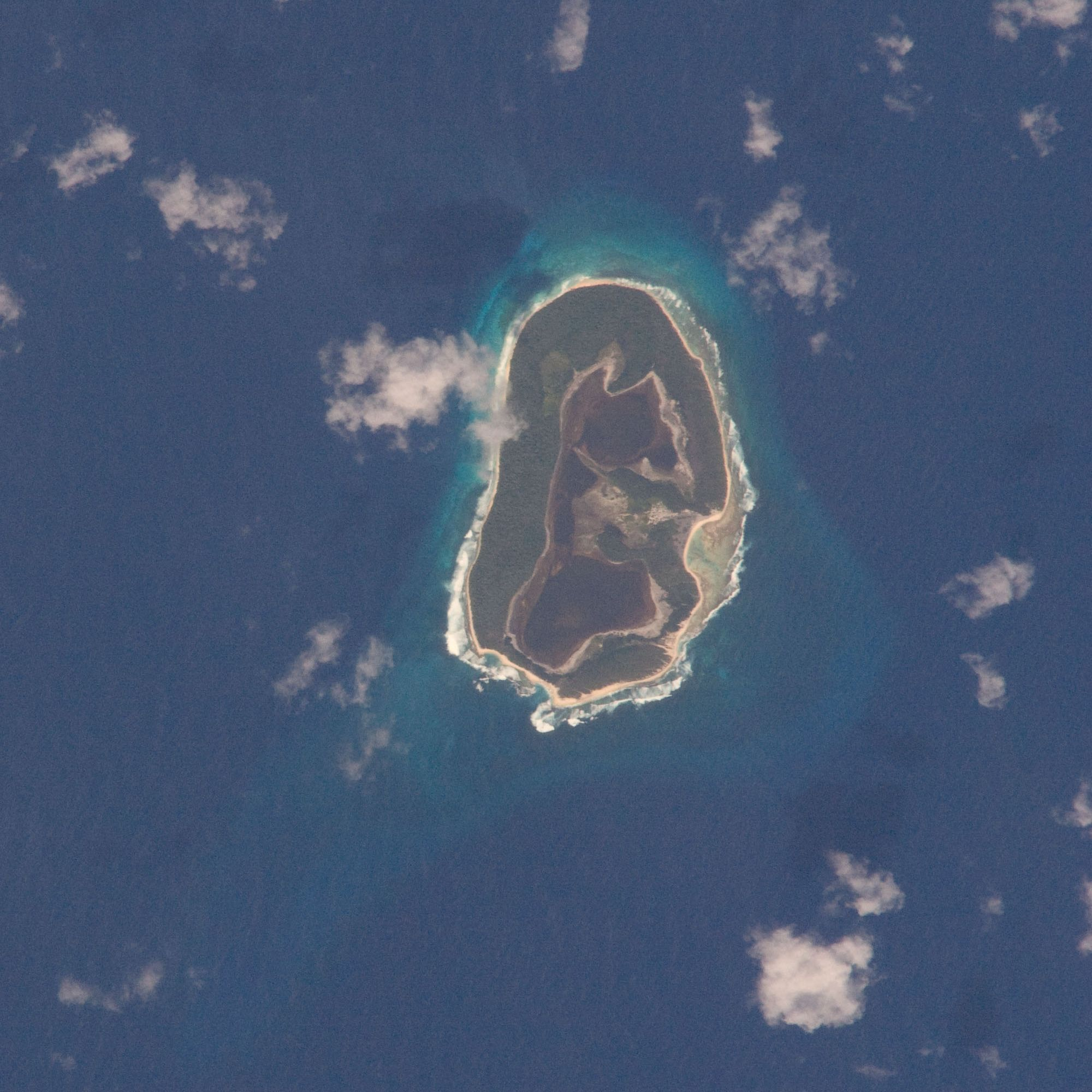 NASA astronaut image of North Keeling Island, Cocos (Keeling) Islands, Indian Ocean